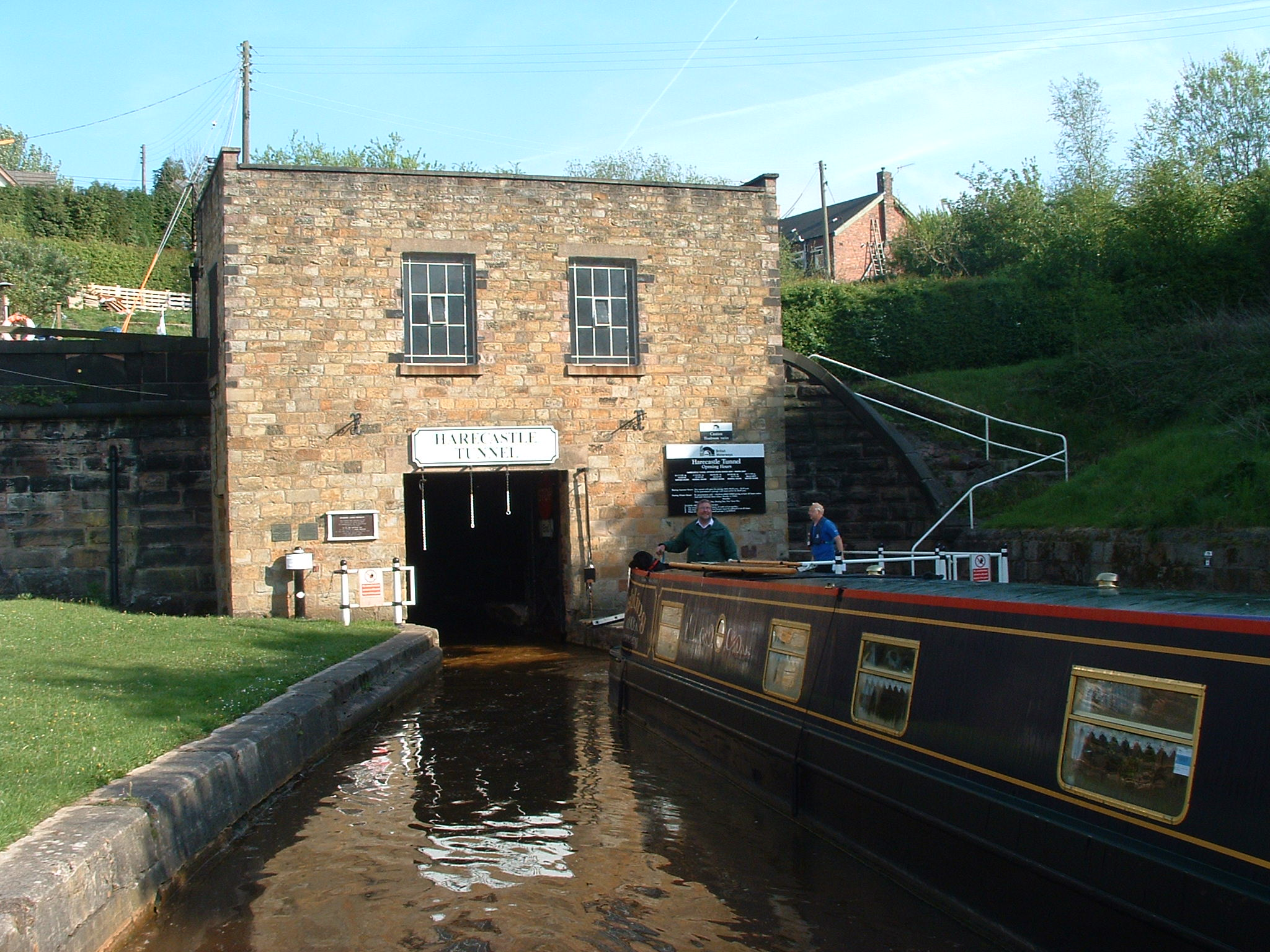 Uploaded by Photographer, Akke Monasso